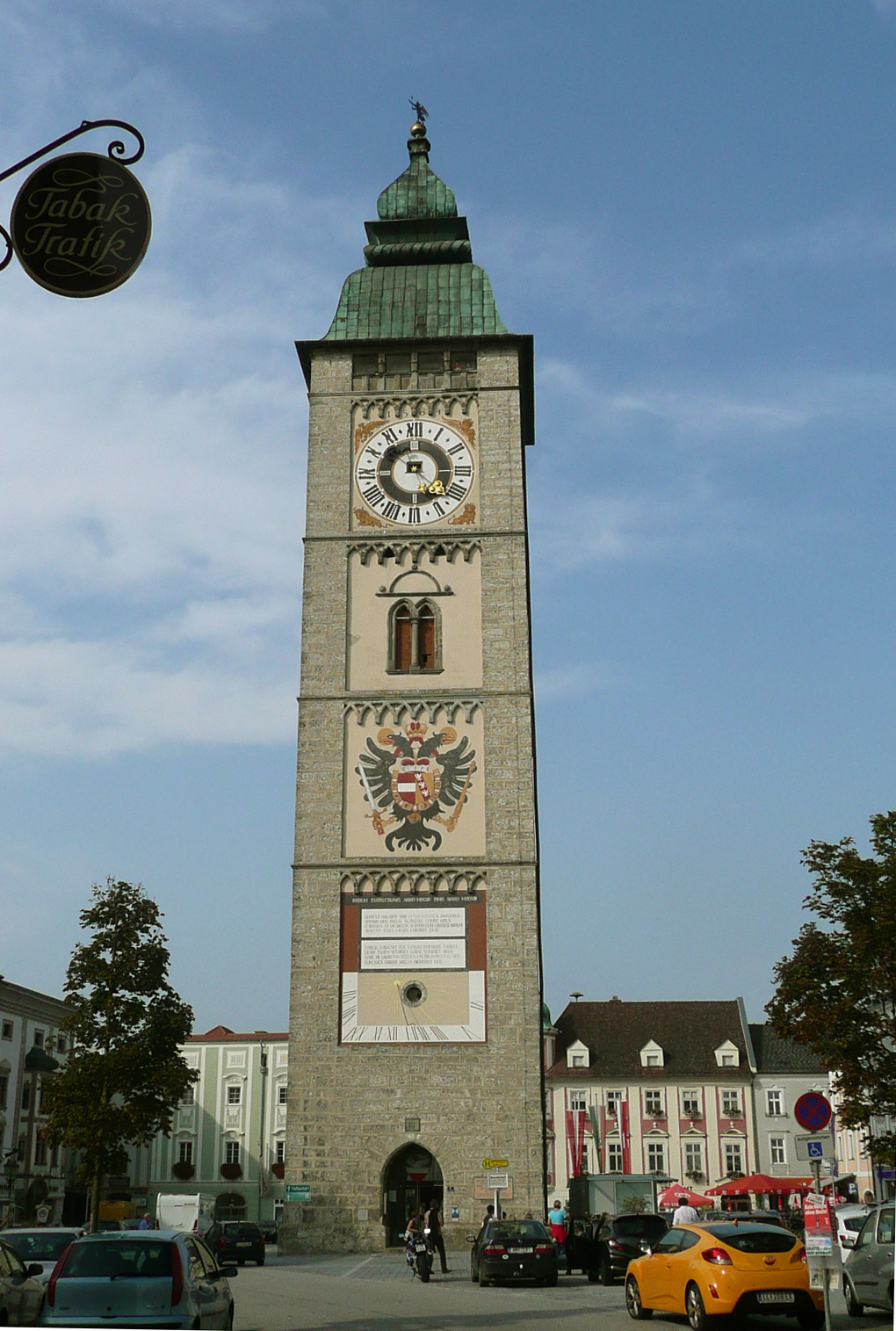 Main tower built 1564-1568 in ENNS, Upper Austria